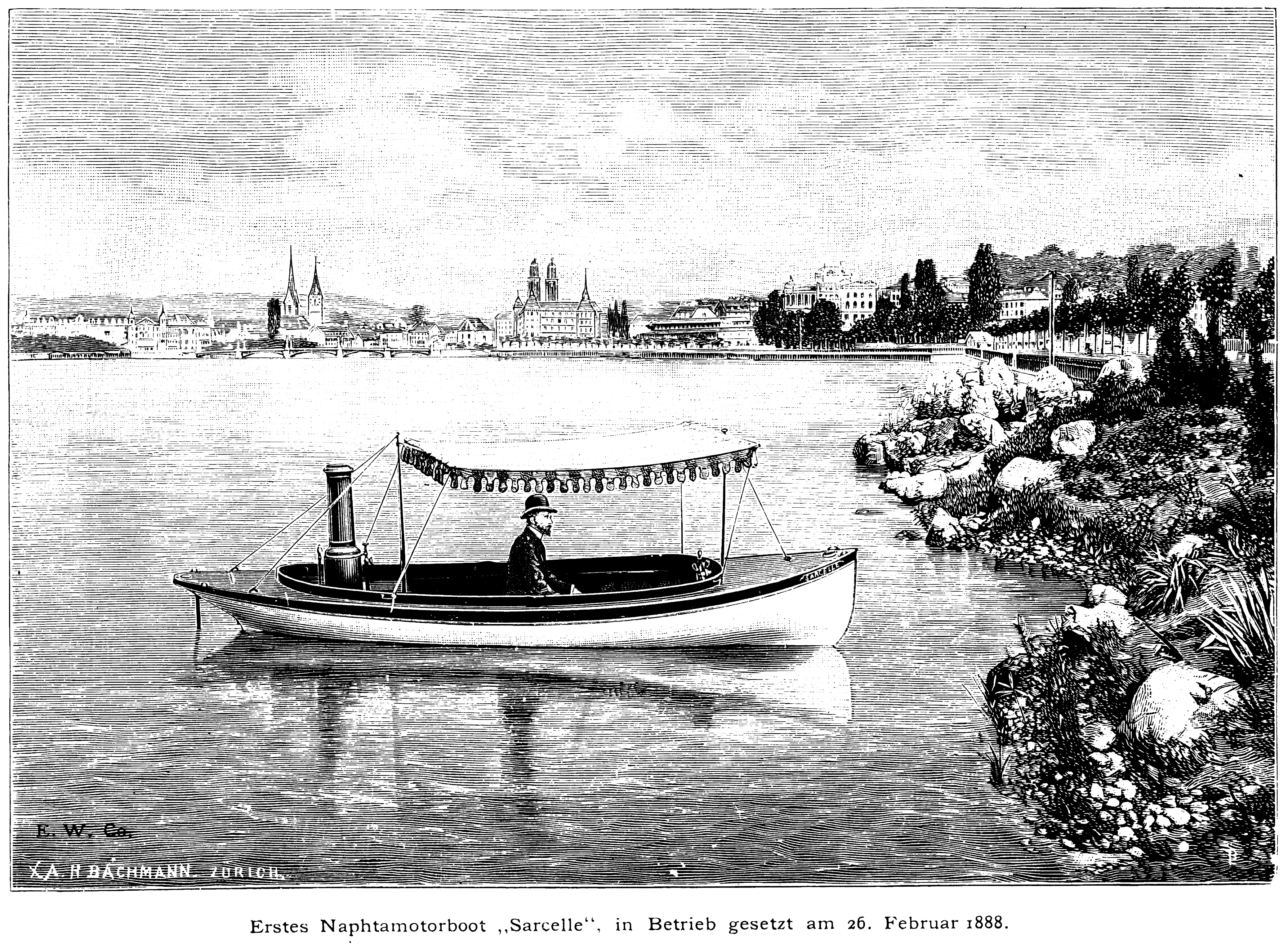 First Naphtha launch manufactured by Escher Wyss, Zürich, year 1888.